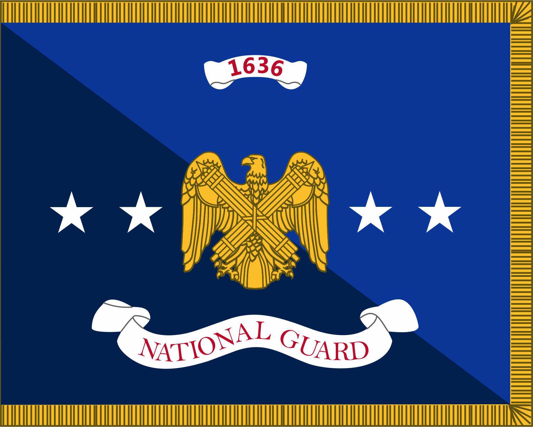 Flag of the Chief of the United States National Guard Bureau